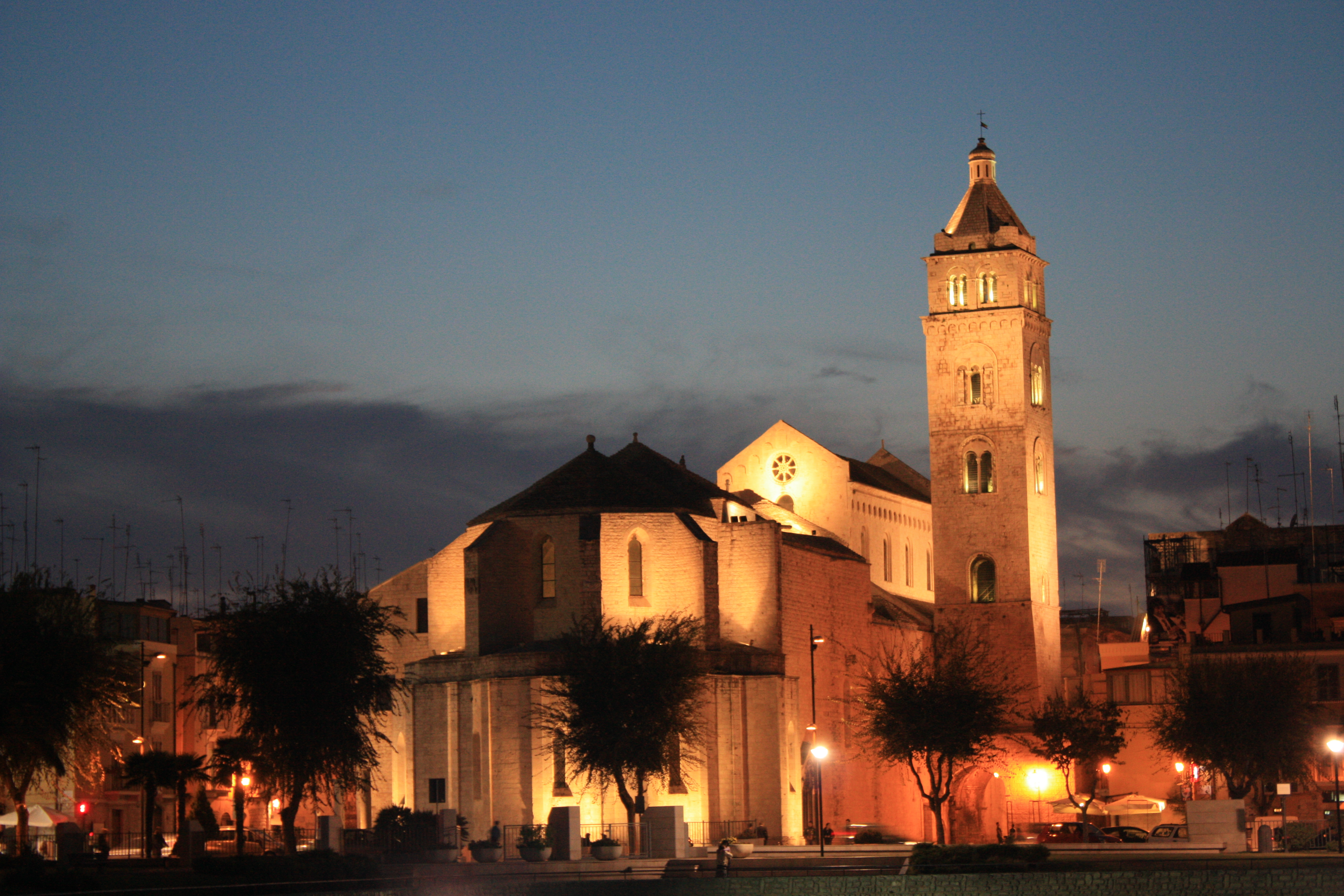 Cathedral of Santa Maria Maggiore in Barletta, Italy